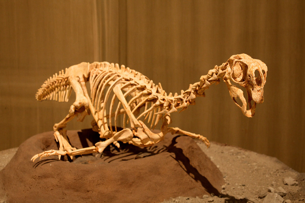 Conchoraptor - 01